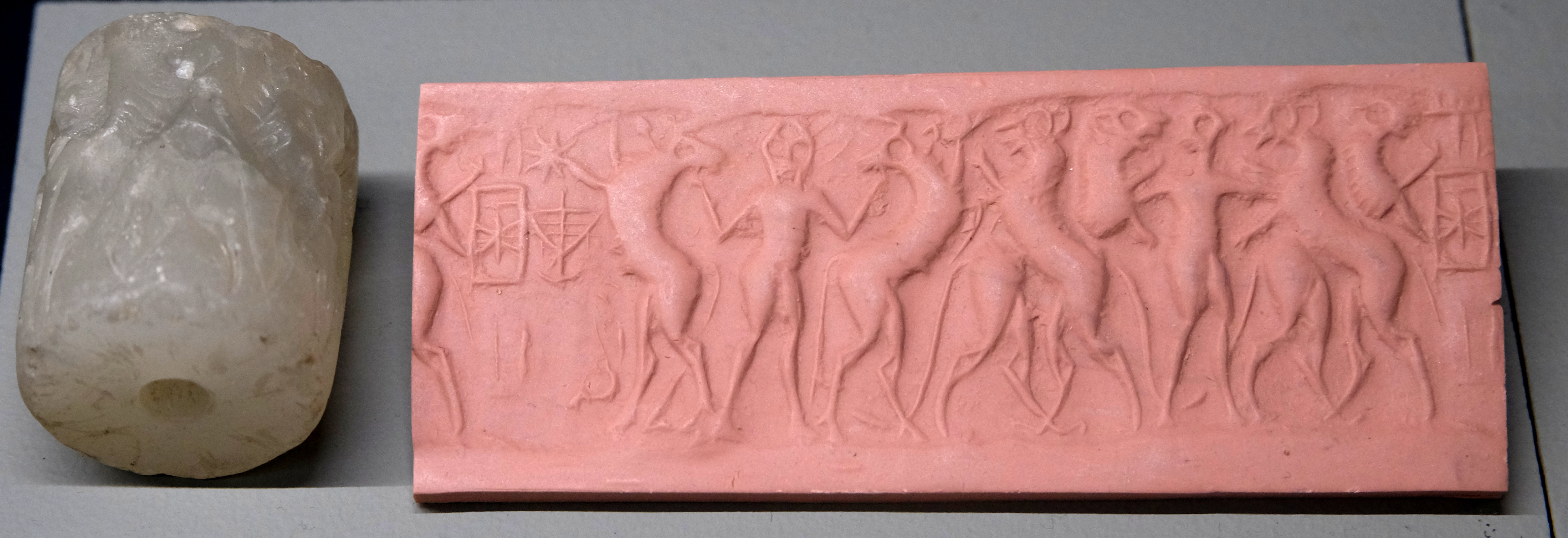 A bull man attacks four quadrupeds. We see the inscription Ama-Ushumgal (𒀭𒂼𒃲𒁔 dama-ušumgal), namesake of the mythical king or shepherd Dumuzi. Archaic dynasty II